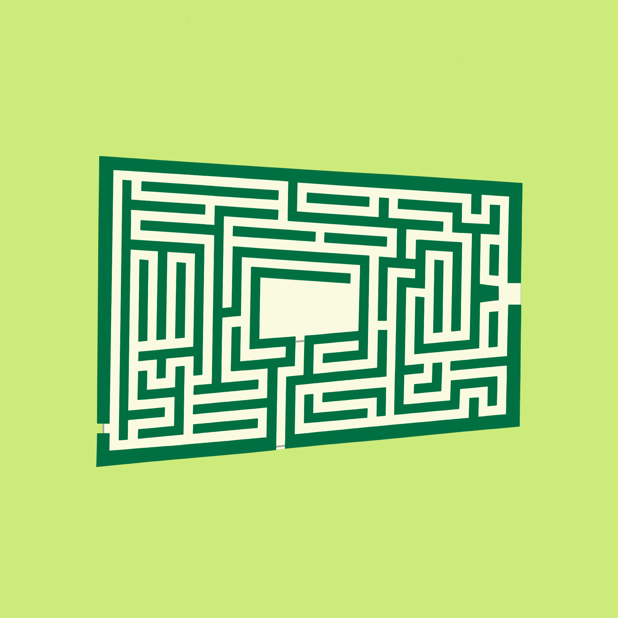 Hedge maze in Hemer (Nordrhein-Westfalen, Germany), Landesgartenschau (garden exhibition)